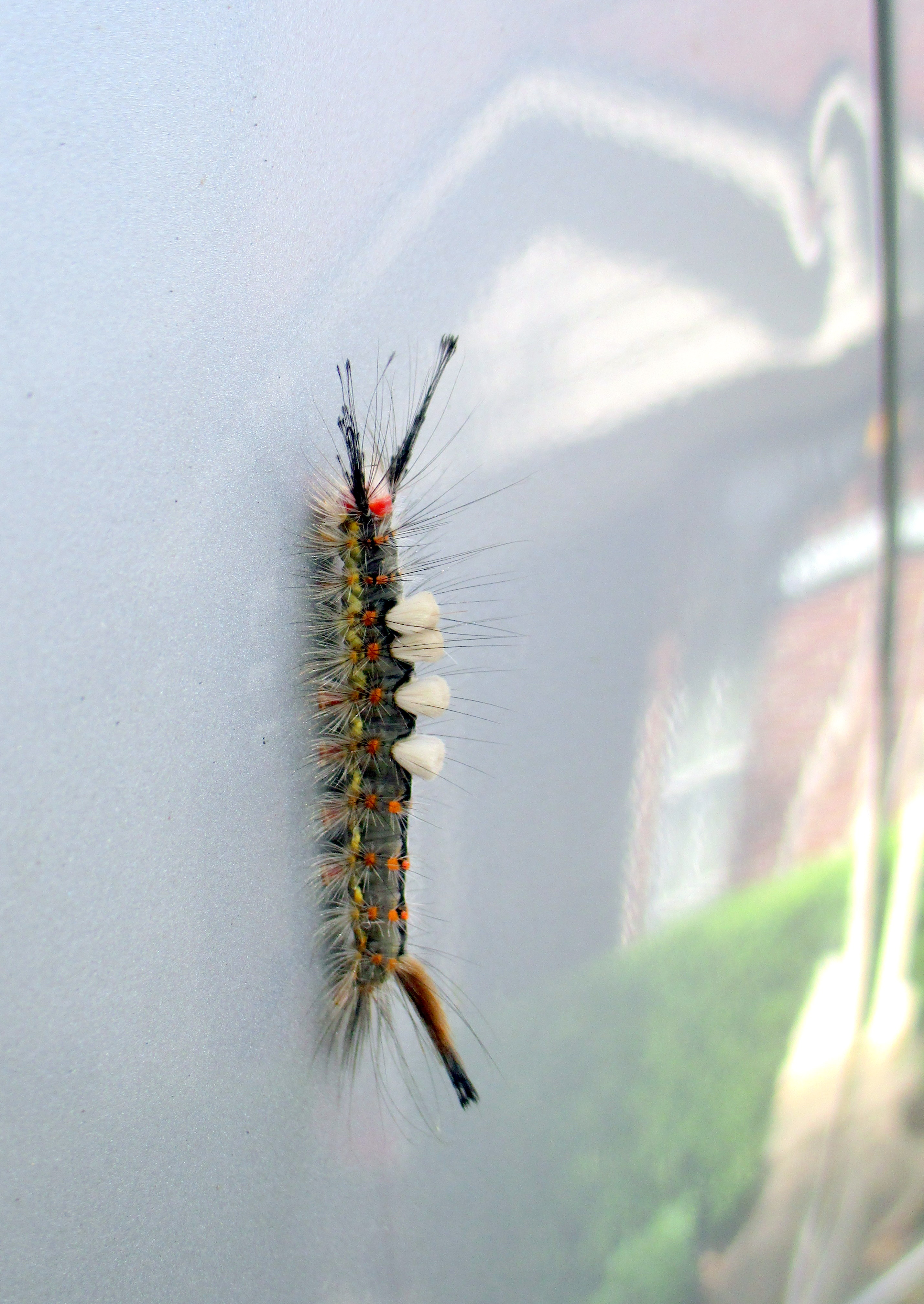 Photo taken 2017 April 16 in Sugar Land Texas, of Orgyia leucostigma caterpillar